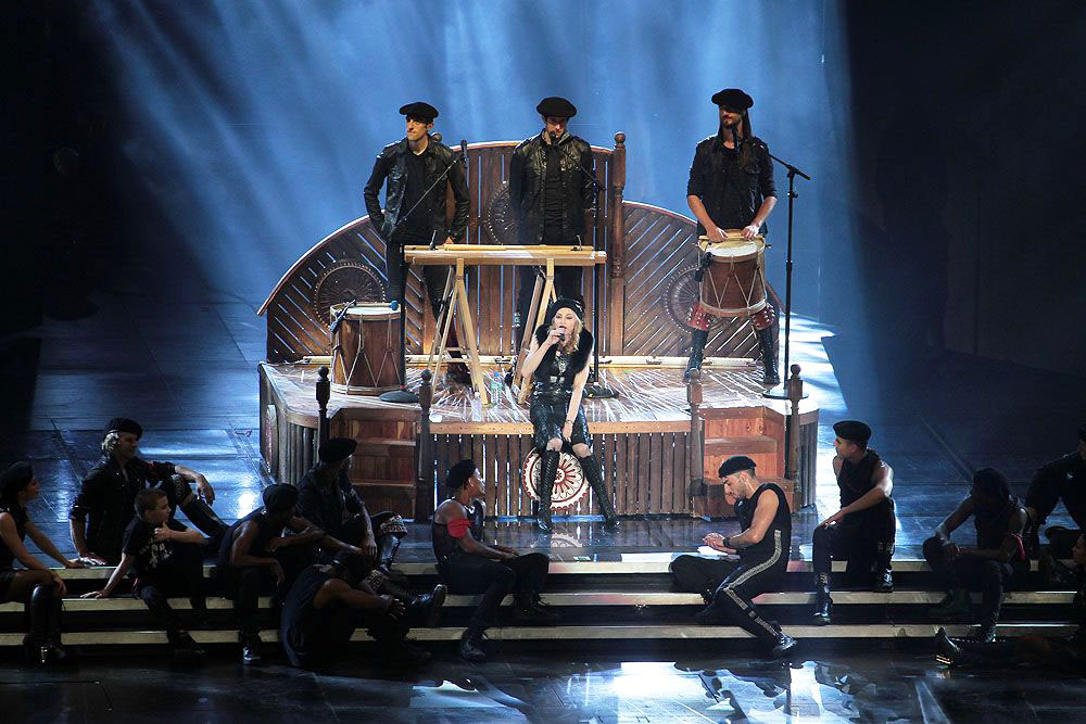 Madonna MDNA Tour Milano 14 giugno 2012 (C) Chinellato Matteo - ChinellatoPhoto 2012